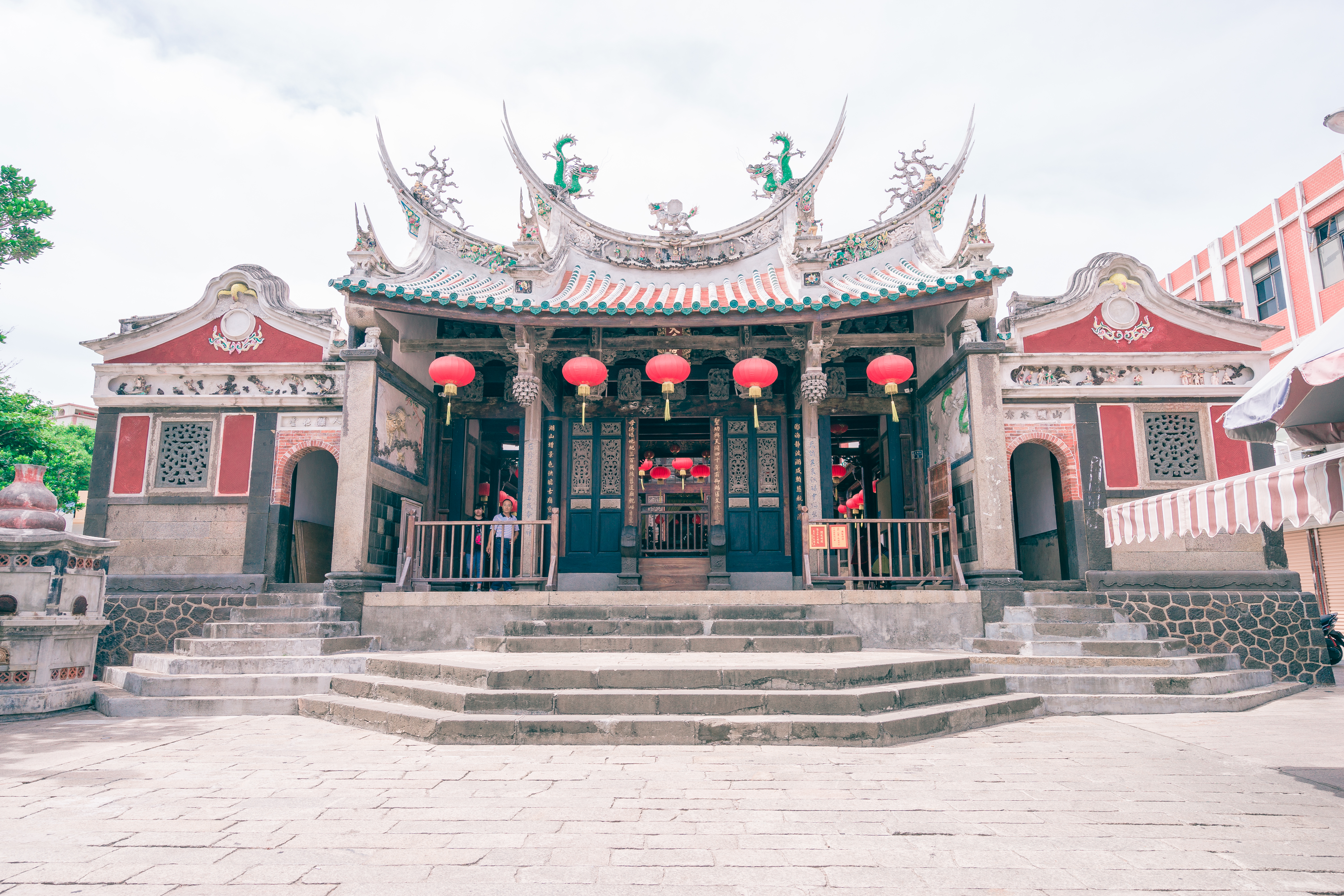 Penghu Tianhougong.